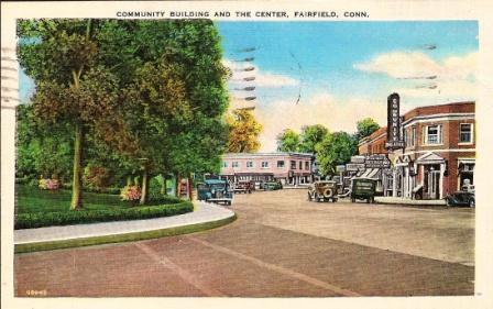 1938 Postcard of Fairfield, Connecticut showing the corner of Post Road and Old Post Road.